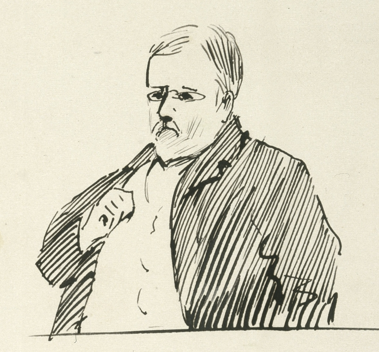 Caricatures of four parliamentarians. Sketch in black ink over pencil of Major William Jukes Stewart, John Duthie, Alexander Wilson Hogg and John McLachlan. Sketch is on p168 of the scrapbook.